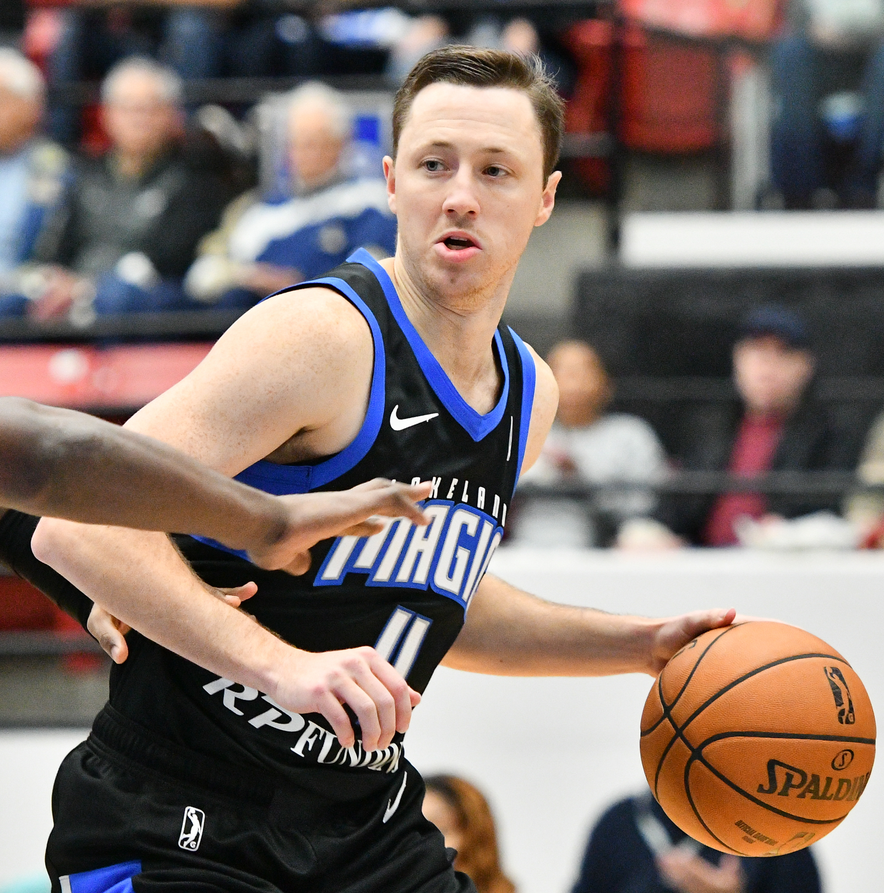 Josh Magette. Lakeland Magic vs College Park Skyhawks. RP Funding Center. Lakeland, Fla. Nov. 16, 2019. (Photo by Tom Hagerty.)